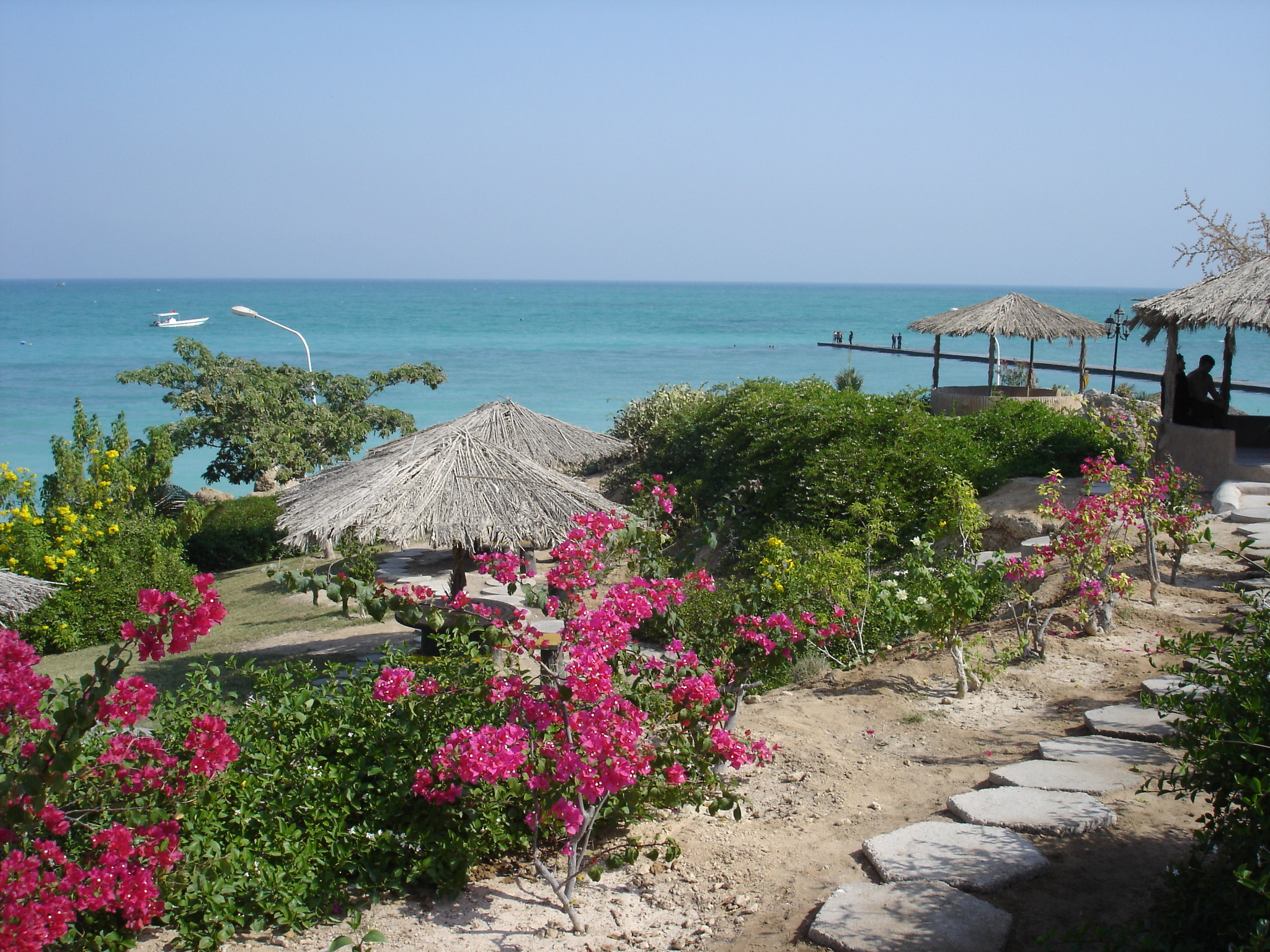 kish sea sides